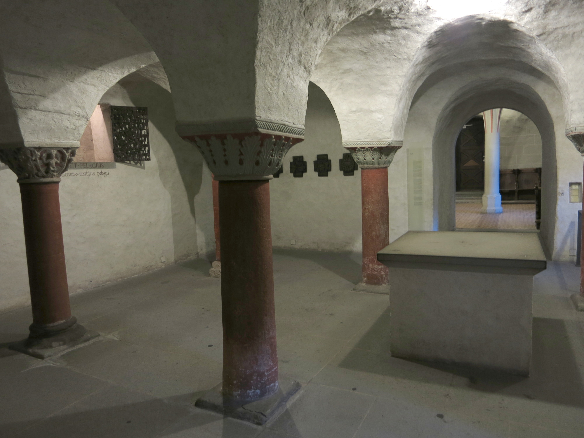 In the crypta of Konstanz cathedral